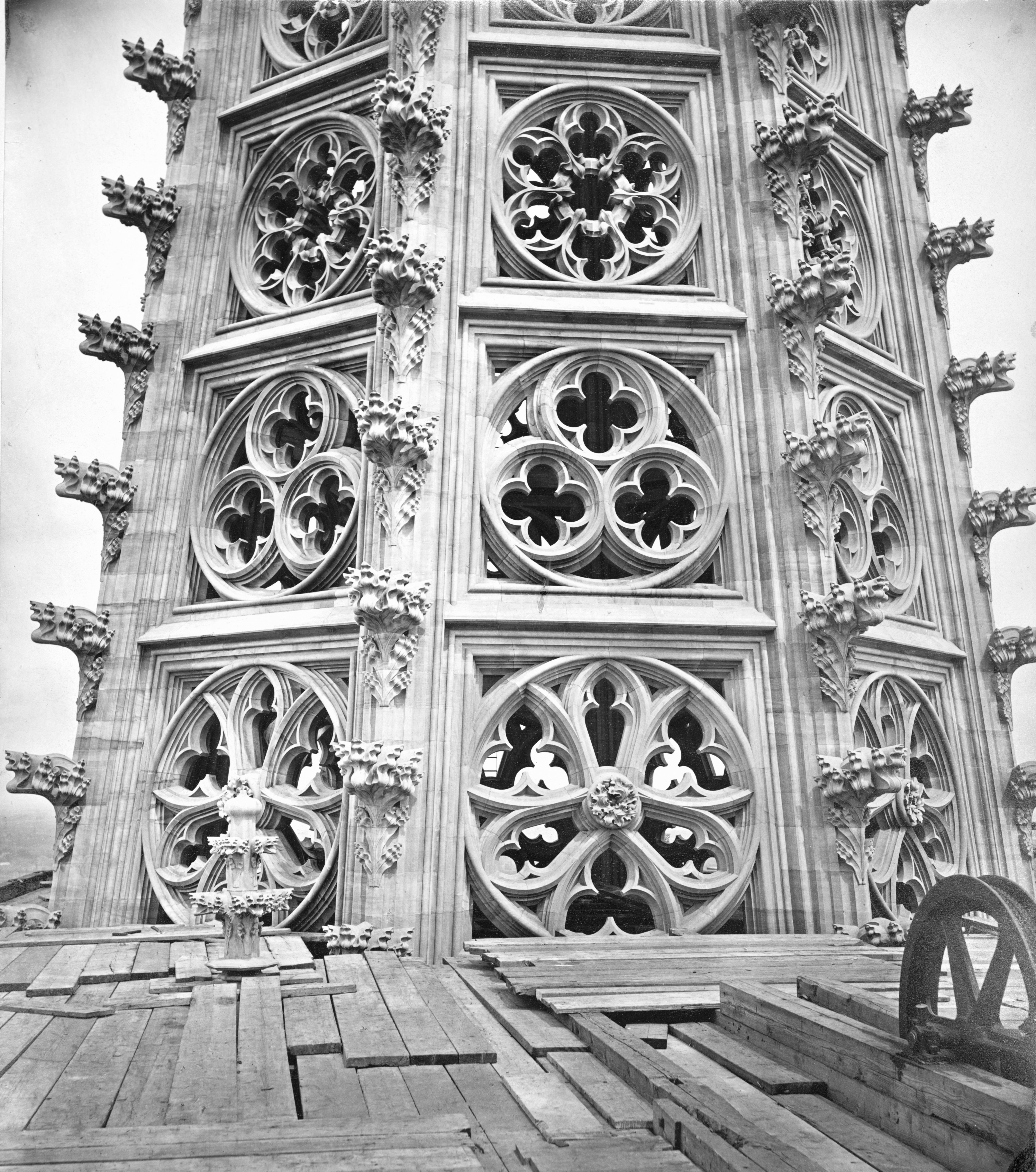 Collection: A. D. White Architectural Photographs, Cornell University Library Accession Number: 15/5/3090.00072 Title: Detail, Cologne Cathedral Tower Architect: Meister (of Cologne) Johann (German, active late 13th, early 14th century) Photograph date: ca. 1877-1881 Building Date: 1300-1880 Location: Europe: Germany; Cologne Materials: albumen print Image: 14.125 x 12.5 in.; 35.8775 x 31.75 cm Style: Gothic Provenance: Gift of Andrew Dickson White Persistent URI: There are no known U.S. copyright restrictions on this image. The digital file is owned by the Cornell University Library which is making it freely available with the request that, when possible, the Library be credited as its source. We had some help with the geocoding from Web Services by Yahoo!